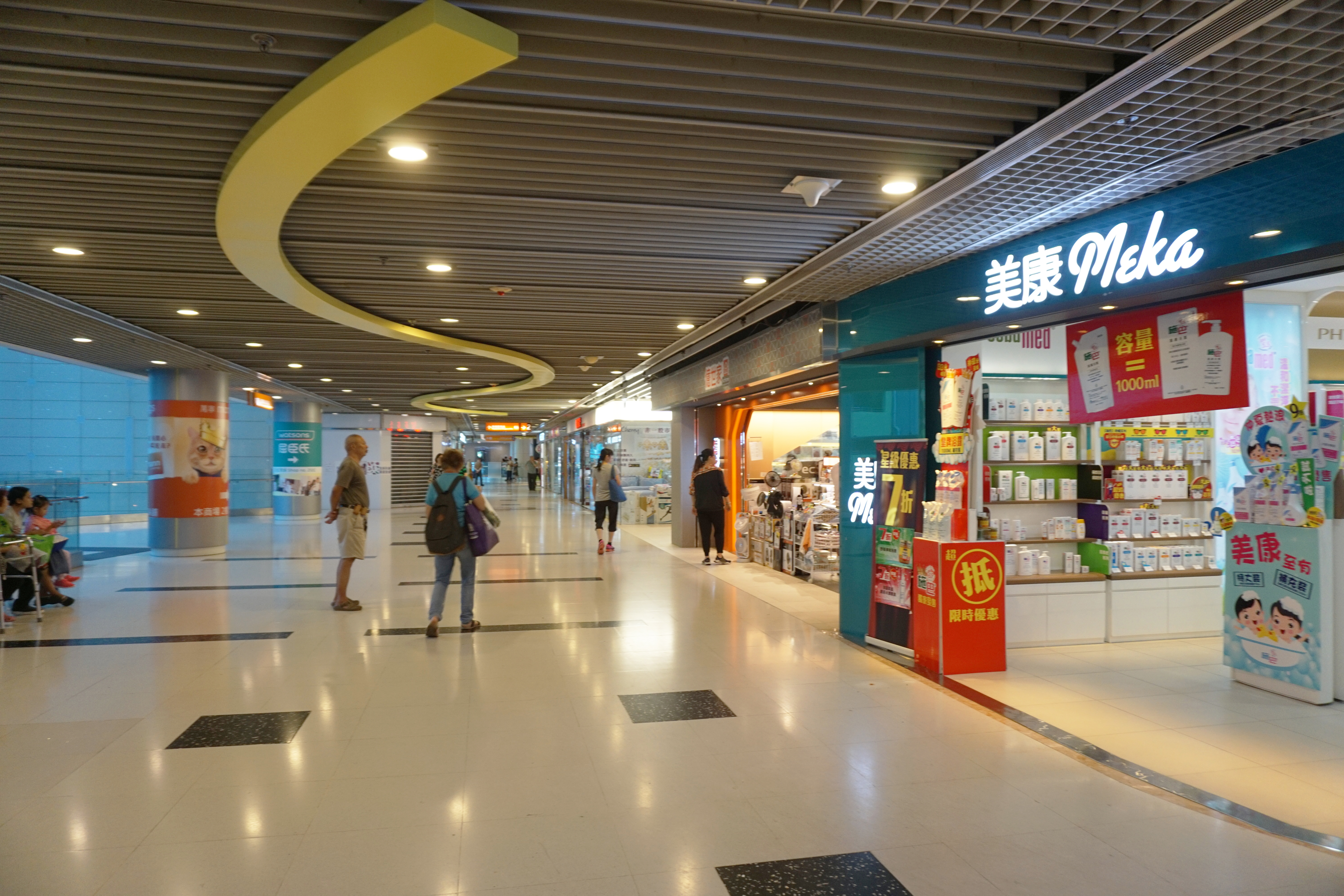 Tin Chak Shopping Centre in Tin Shui Wai, Hong Kong.